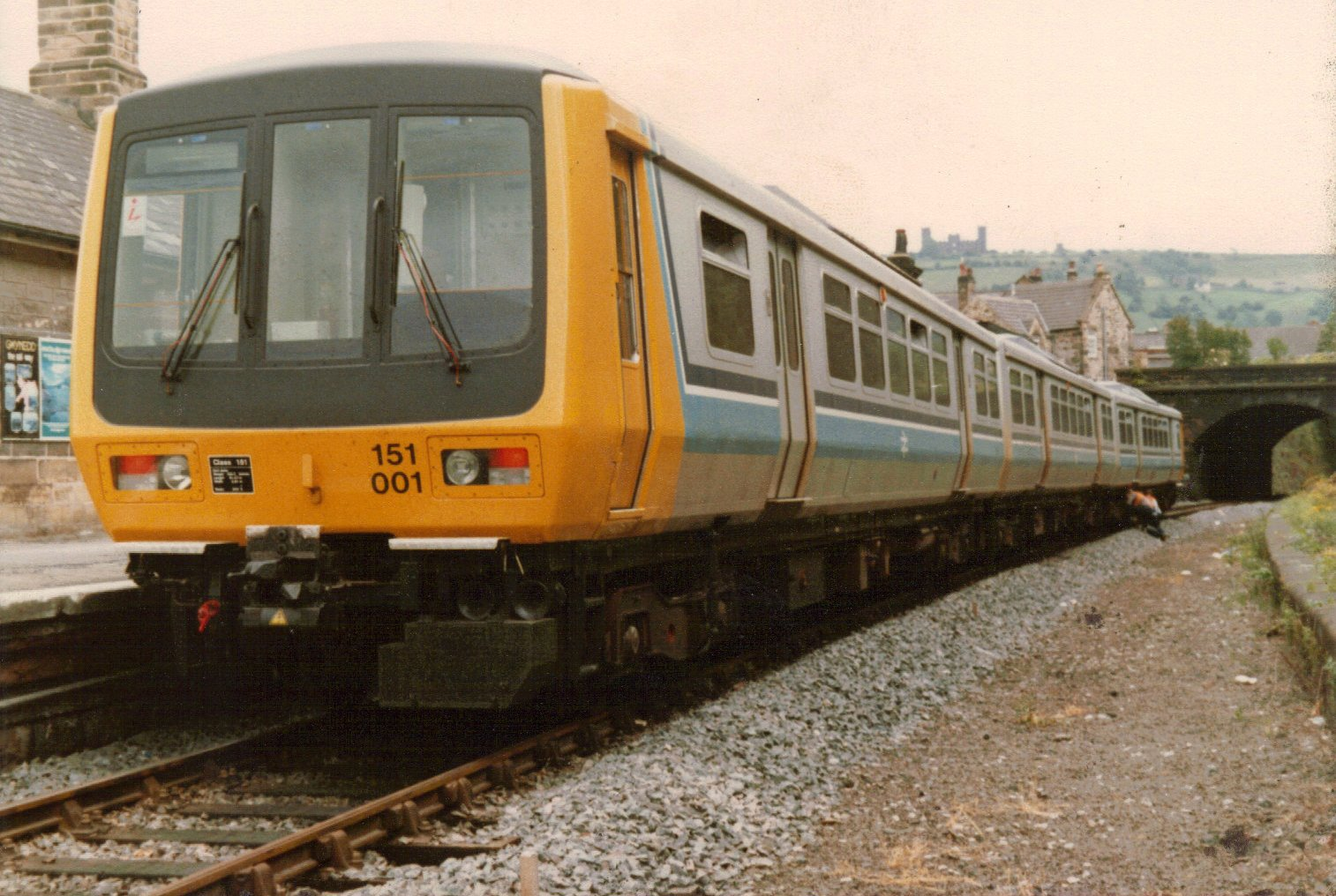 151001 at Matlock